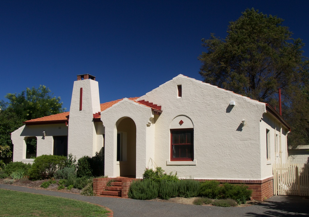 Federal Capital Commission house in Reid, one of several similar designs.